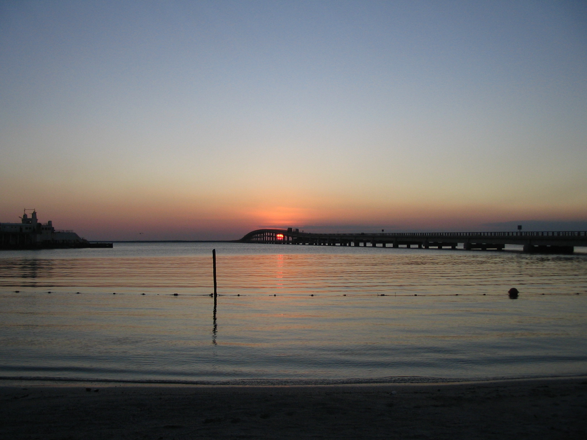 Sunset at Ciudad del Carmen, Campeche Puesta de sol en Ciudad del Carmen, Campeche